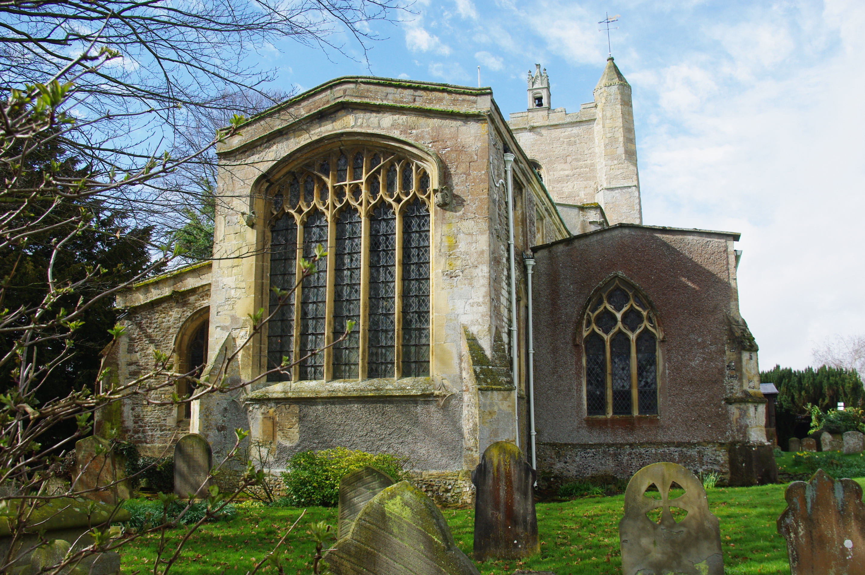 St Andrew's parish church, East Hagbourne, Oxfordshire (formerly Berkshire) seen from the east, showing east windows of chancel (Perpendicular Gothic, left) and north chapel (Decorated Gothic, right)